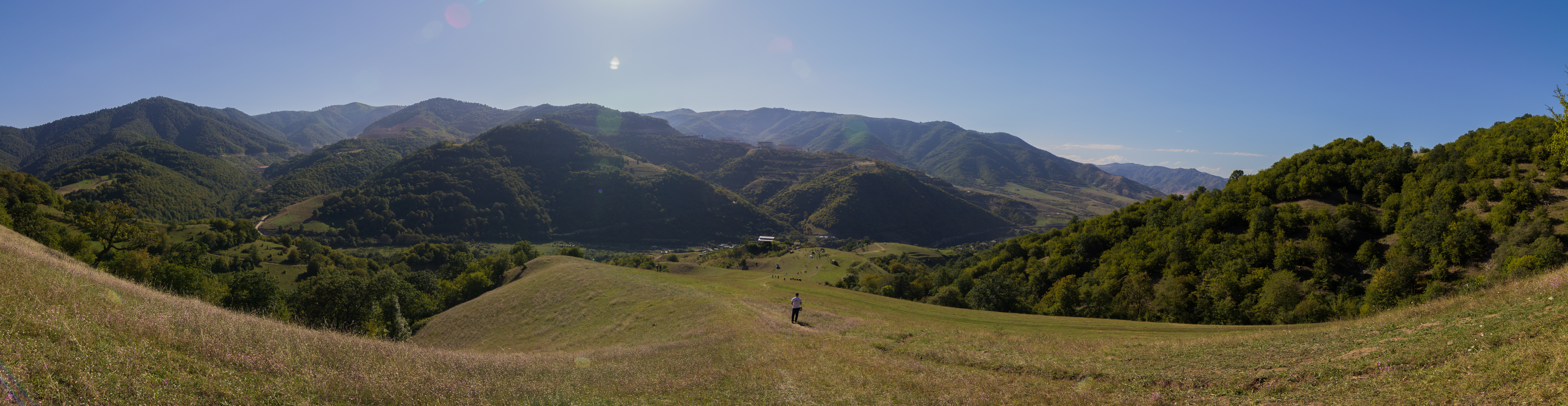 A panoramic view of the village Teghut in the Lori Province of Armenia.